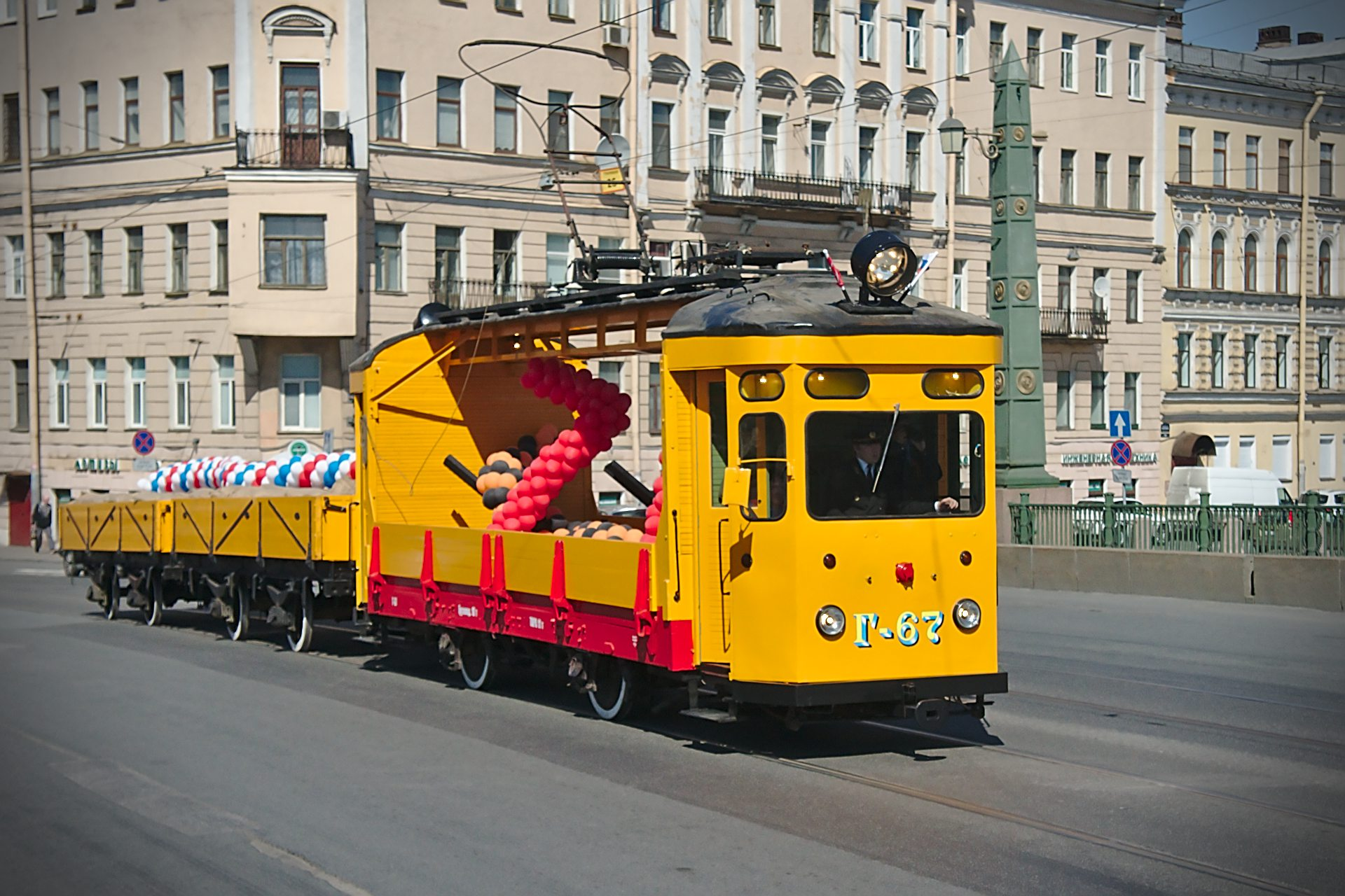 Old cargo tram during the tram parade in Saint-Petersburg on 9th of May 2015